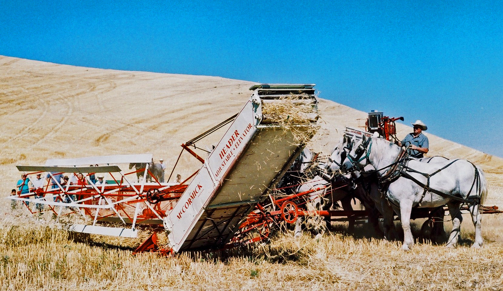 Antiquated harvesting/threshing techniques are demonstrated at the annual Colfax threshing bee 2007 ("Palouse Empire Threshing Bee") at the Empire fairgrounds near Colfax Washington – an unidentified kind of horse-drawn harvesting machine (please add information if you know details!) with a McCormick Header Adjustable Elevator